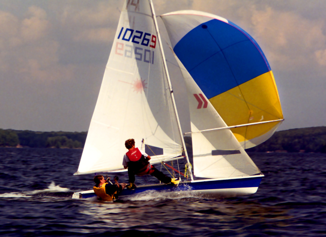 A Laser II under spinnaker